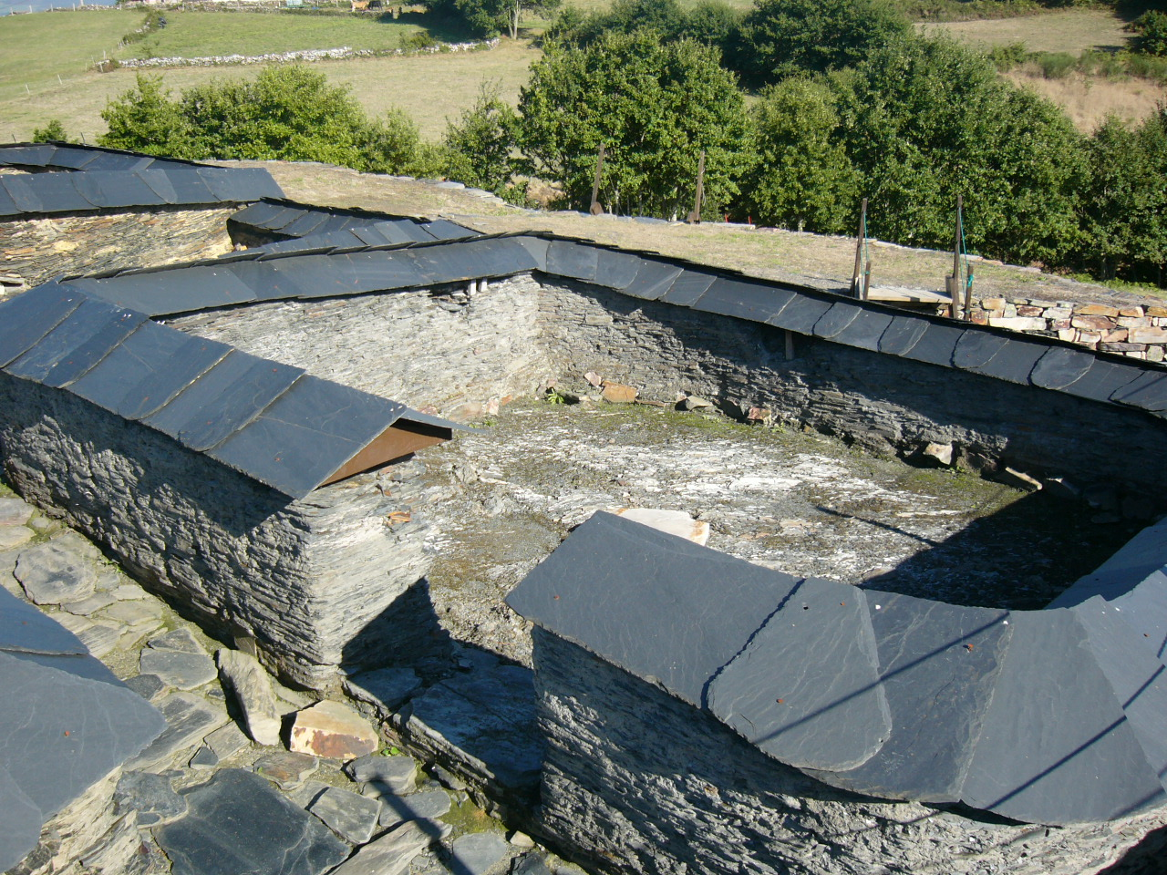 A building on Chao Samartín (Grandas de Salime - Asturies - Spain)